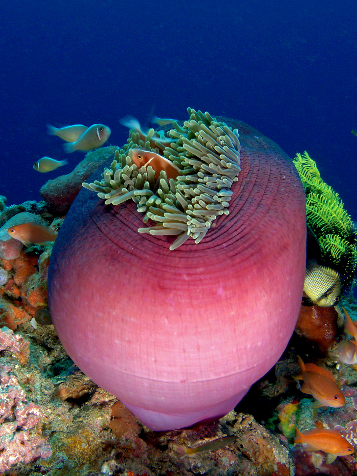 Amphiprion perideraion (Pink anemonefish) in Heteractis magnifica (Magnificent sea anemone)